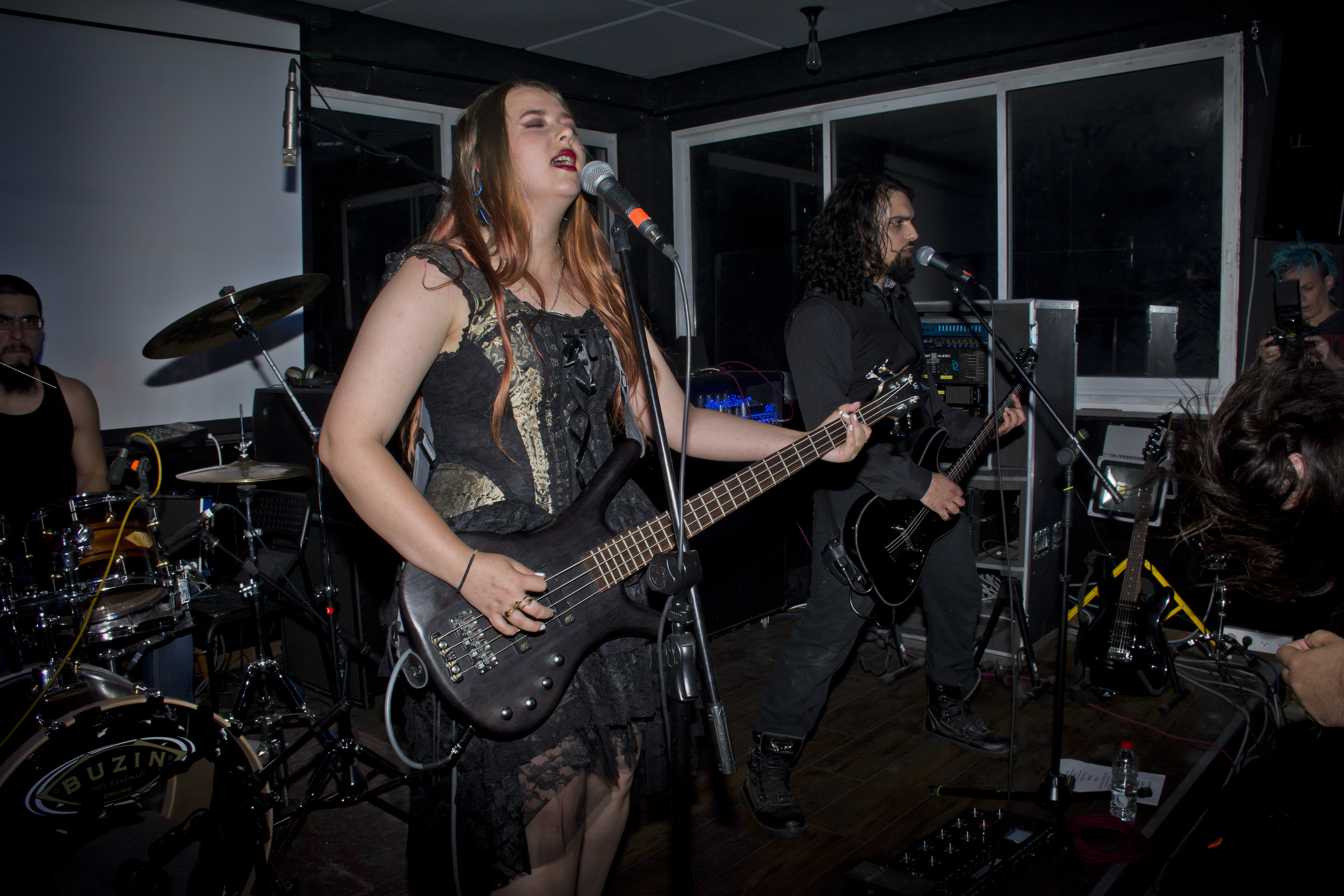 Edellom - Israeli Gothic Doom / Death metal band. This is the launching concert of their demo "Long Lost Suns", held in Tel Aviv, Israel, on April 24, 2016.